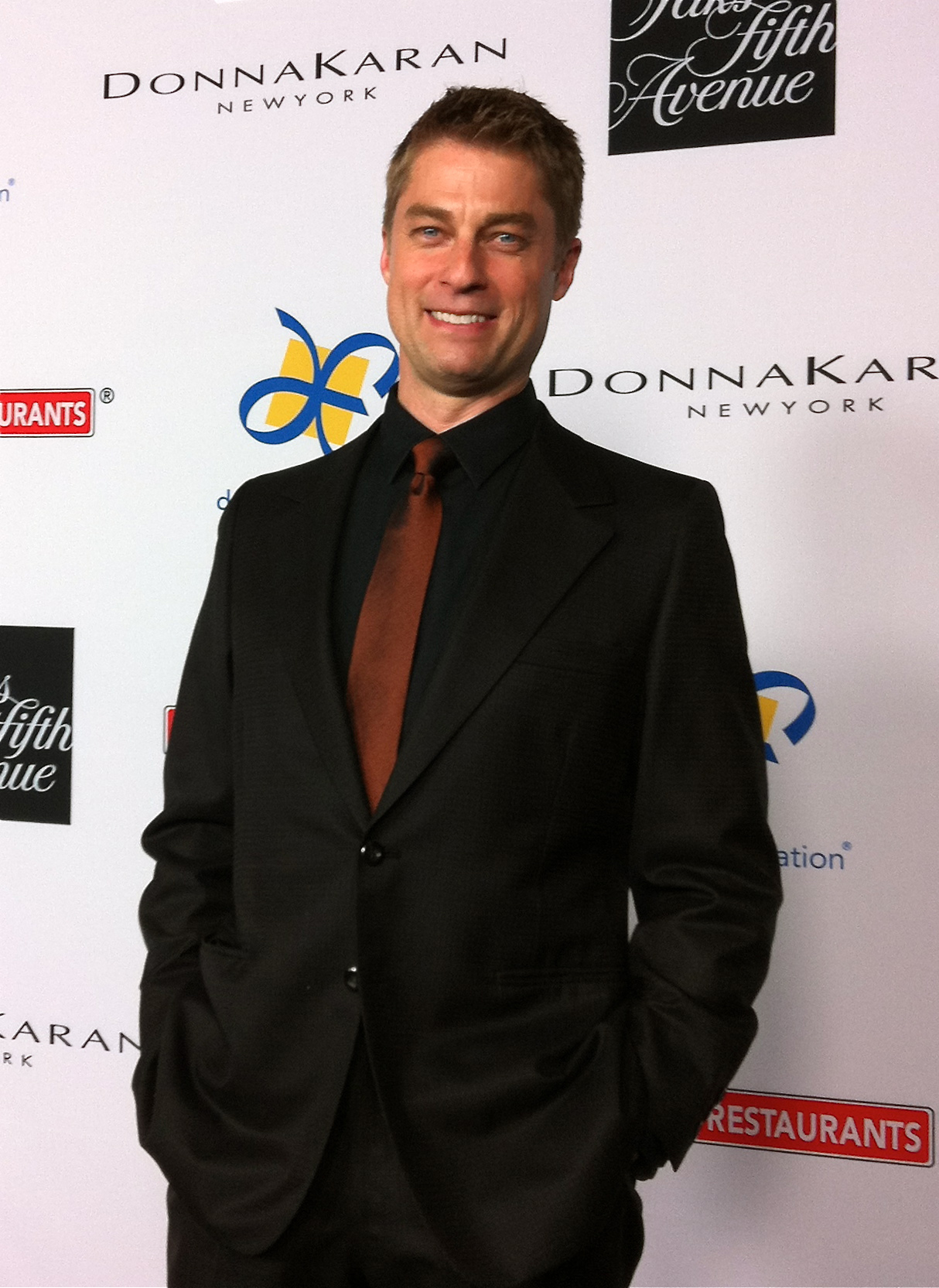 Jamison Jones at the dream foundation charity event in Santa Barbara, CA.